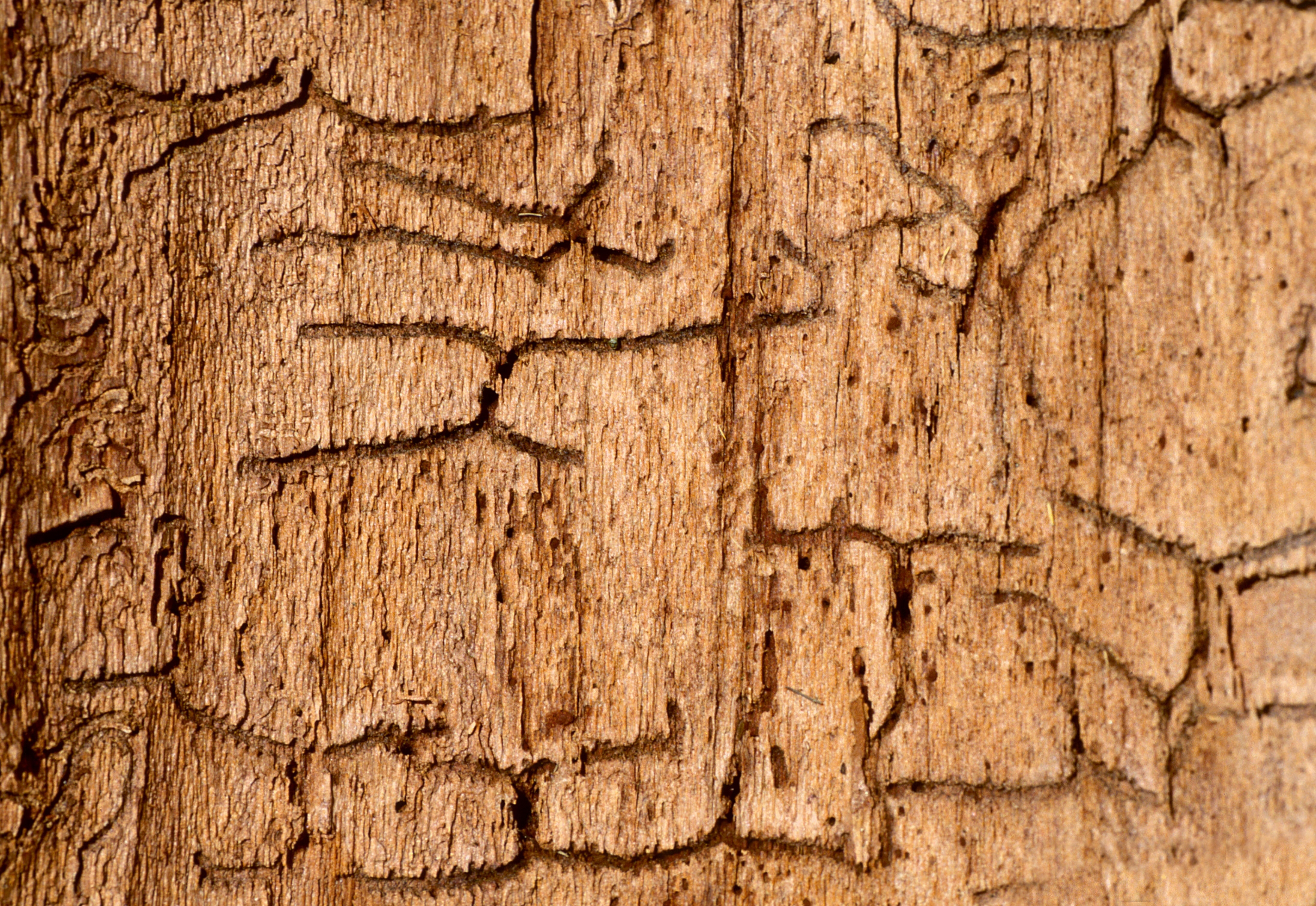 Pityokteines curvidens